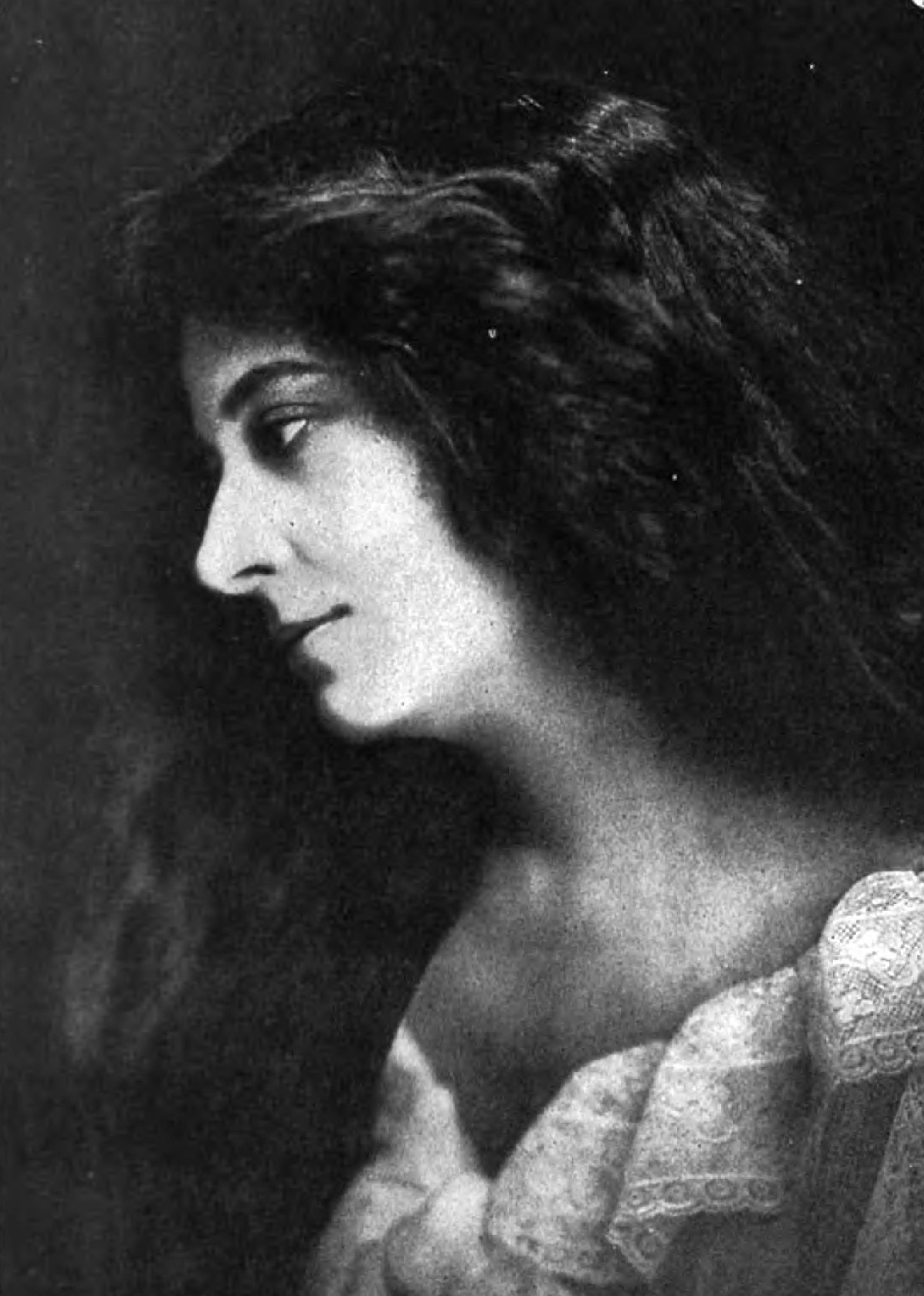 American actress Adele Lane (1877–1957).